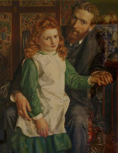 Portrait in oils by Edward Poynter (1836-1919) in 1876 of Sir Hugh Bell, heir to the Bell Brothers industrial empire, and his daughter Gertrude Bell, aged 8, who became an explorer of Arabia and a founder of Iraq. 1876 was the year Sir Hugh remarried; it is thought the portrait was to be of the married couple, but he chose his daughter instead.